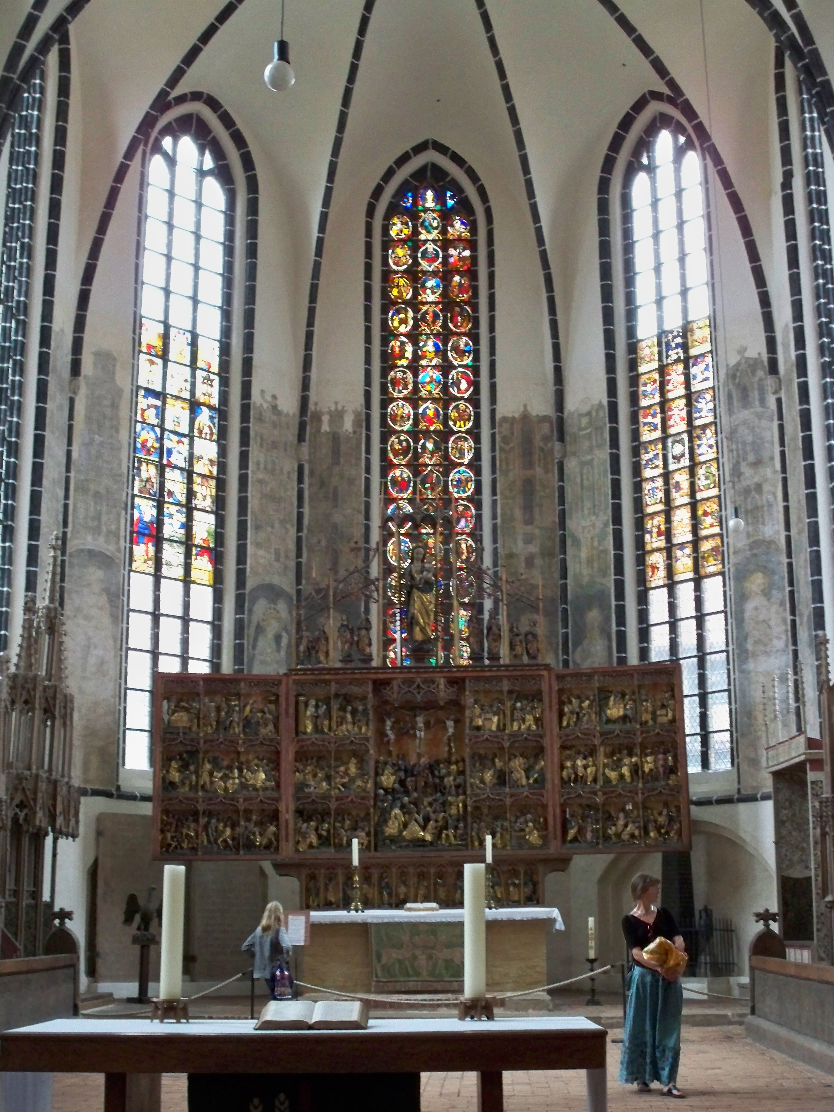 Marienkirche in Salzwedel, interior (altar etc.)